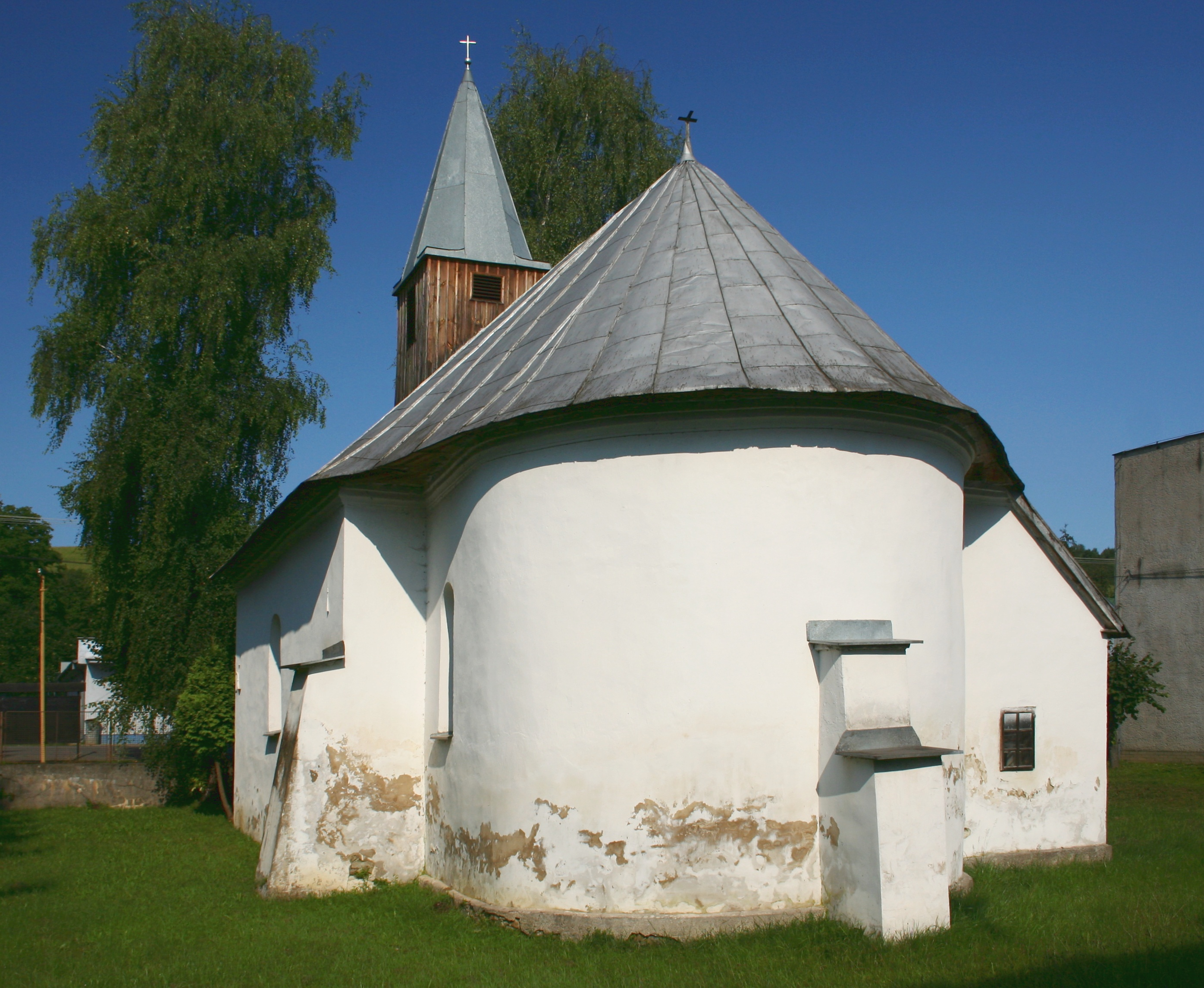 church in Holčíkovce, Slovakia